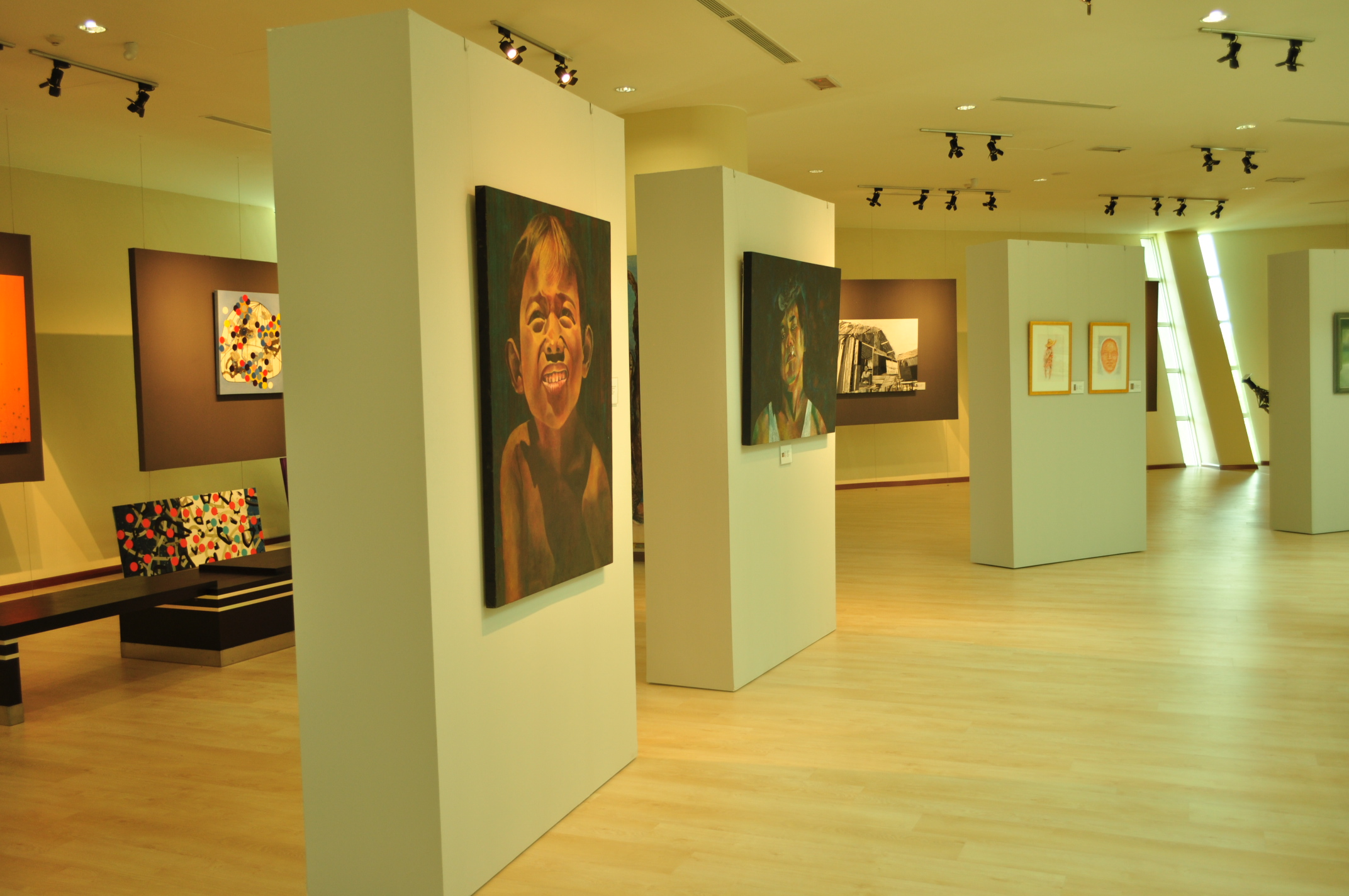 Kota Kinabalu, Sabah: Balai Seni Lukis Sabah (Sabah Art Gallery)